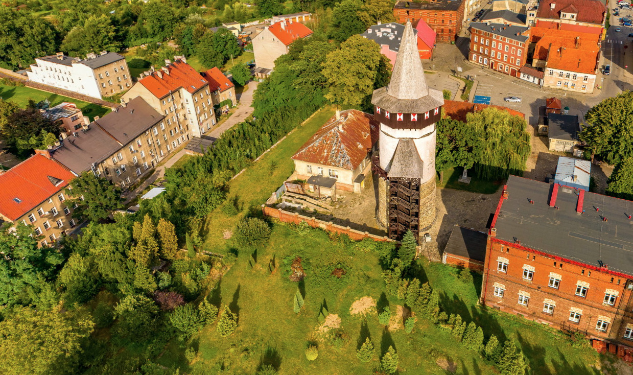 Prudnik z drona